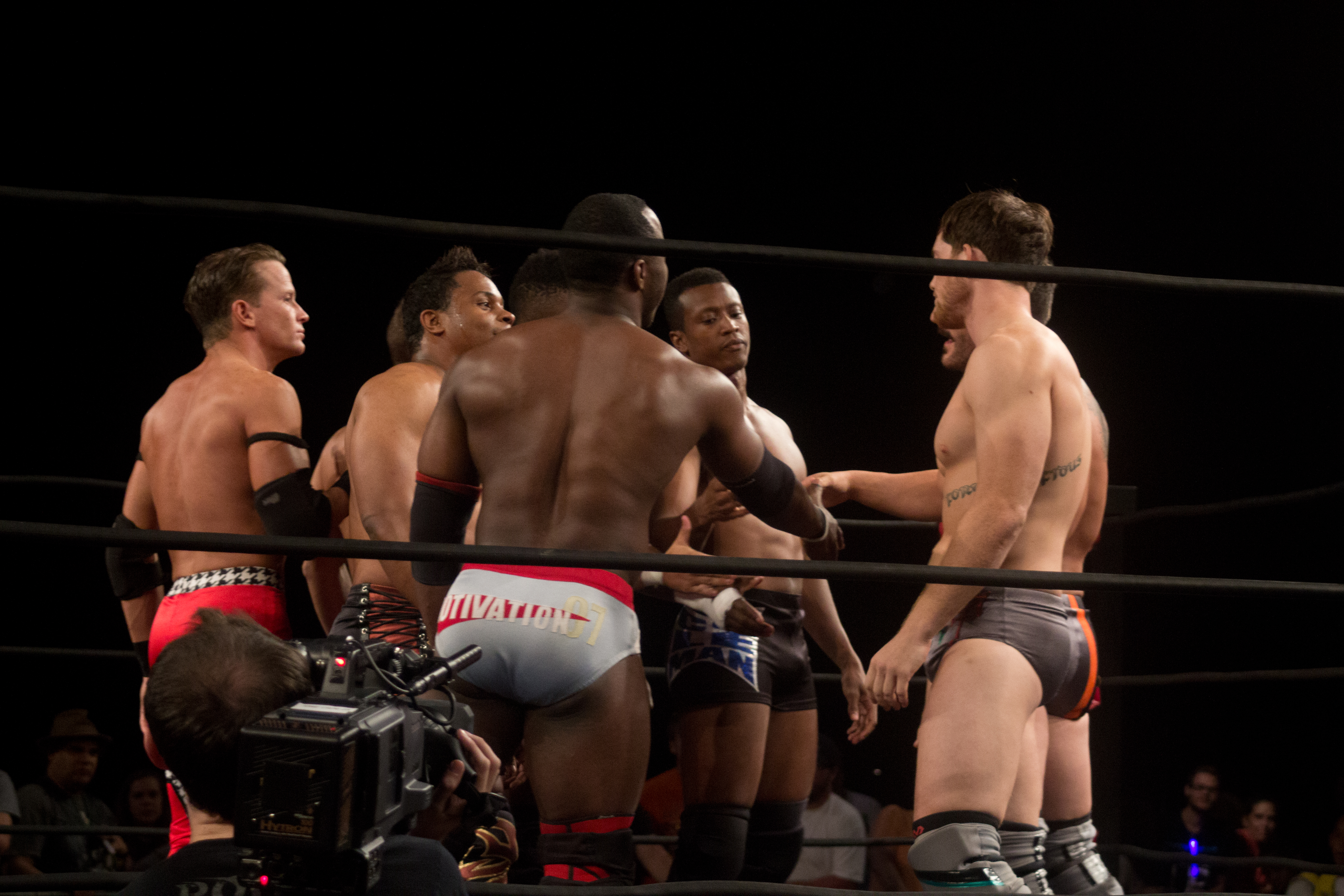 reDRagon (right) respecting the Code of Honor in september 2013.